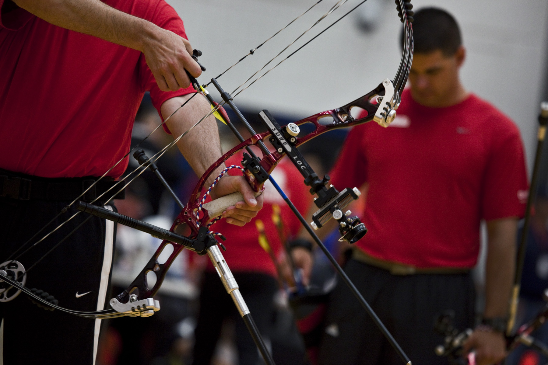 Staff Sgt. Matthew Benack, an archer with the all-Marine Warrior Team, sets an arrow into position during the final round of the inaugural Warrior Games archery competition May 12, 2010. Benack went head-to-head with his fellow Marine, Cpl. Beau Parra, who ultimately won gold for the compound bow competition.